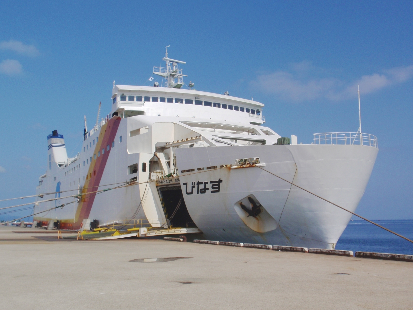 Ferry Venus IMO number: 9114567 Callsign: JD2733